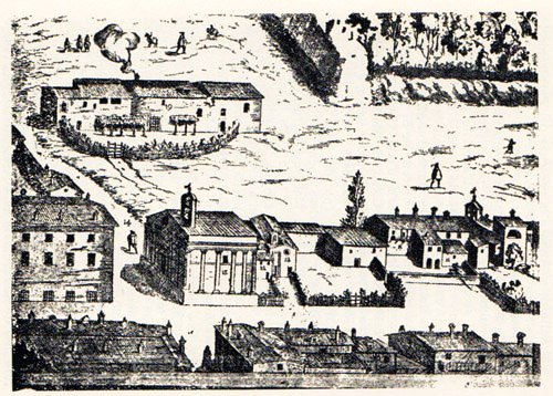 Church of Saint Anne in Vatican represented in 1615